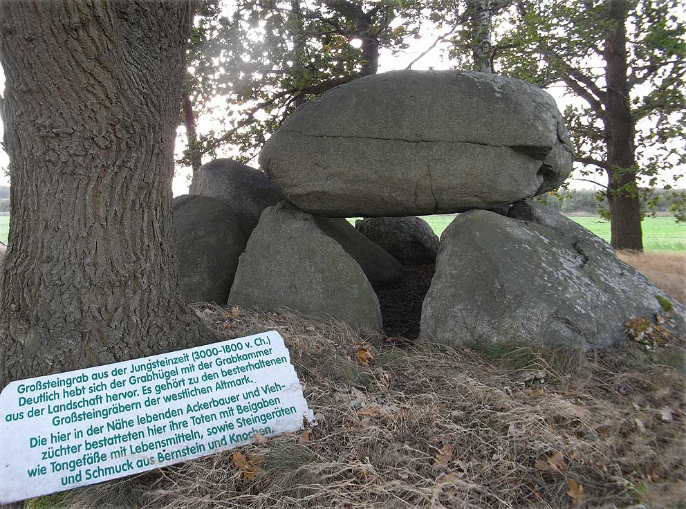 Nettgau Steingrab, Chambered Tomb in Saxony-Anhalt Near the small village Gladdenstedt, in the middle of a field: The 'Großsteingrab' or 'Großdolmen' of Nettgau. On top of a tumulus, a 5.3m x 1.5m chamber with 11 orthostats and 2 remaining capstones. One capstone still in situ, the other has fallen into the chamber. Some more remains, most likely from the bursted missing capstones, are scattered arround.